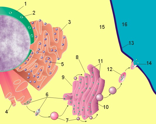 Secretory pathway diagram, including nucleus, endoplasmic reticulum and Golgi apparatus. Nuclear membrane Nuclear pore Rough endoplasmic reticulum (REM) Smooth endoplasmic reticulum Ribosome attached to REM Macromolecules Transport vesicles Golgi apparatus Cis face of Golgi apparatus Trans face of Golgi apparatus Cisternae of Golgi apparatus Secretory vesicle Cell membrane Fused secretory vesicle releasing contents Cell cytoplasm Extracellular environment